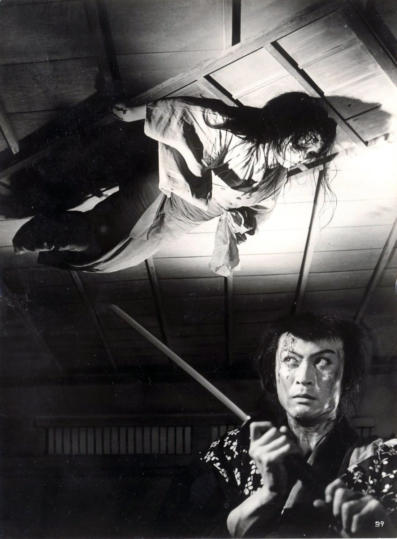 "Toukaidou Yotsuya Kaidan" July 7,1959